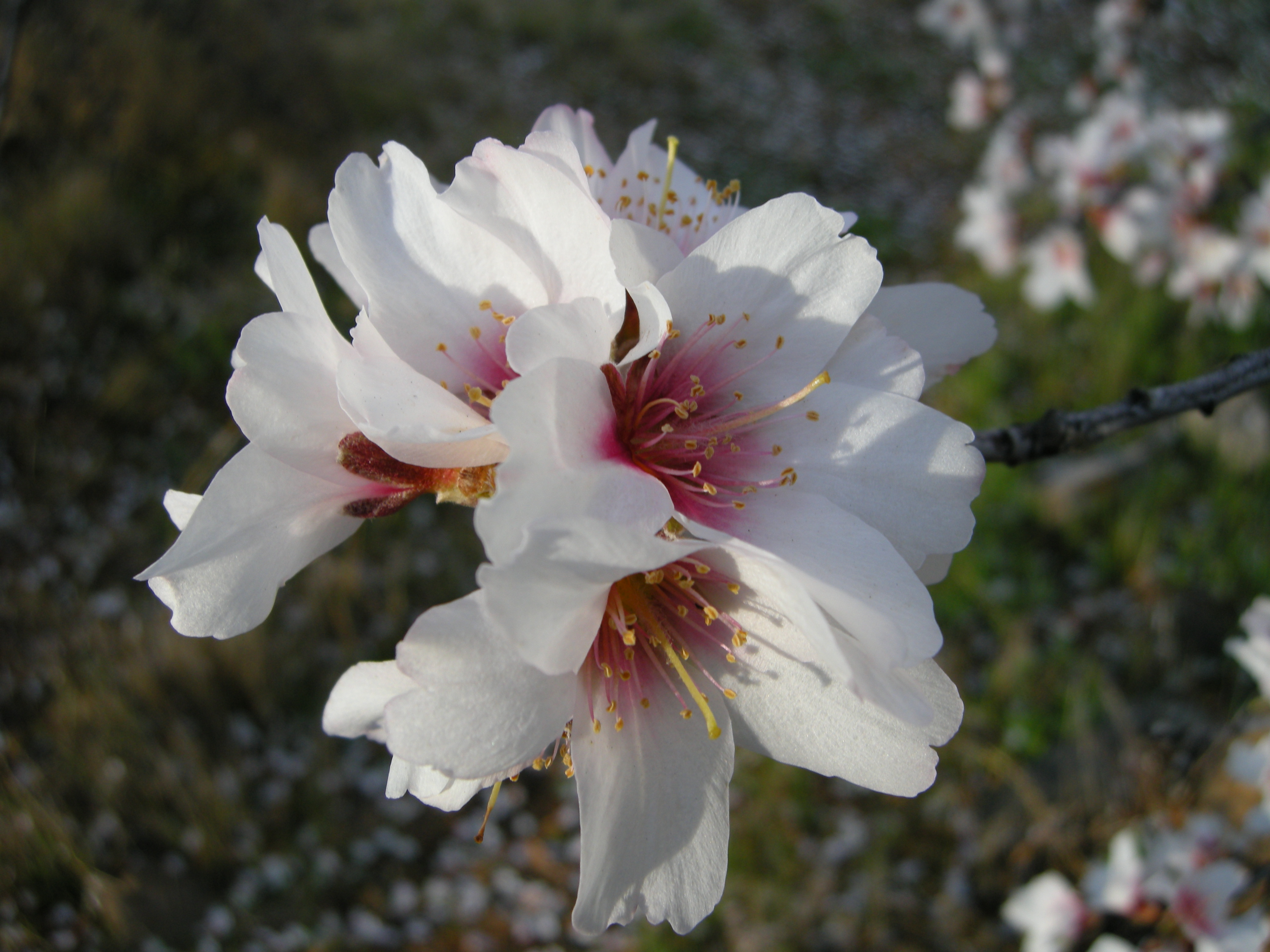 Almond (Prunus dulcis) flower, Tenerife